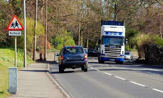 The Shore Road, Jordanstown The Belfast – Carrickfergus road is a mixture of motorway, dual carriageway and four-lanes. The 1½ miles between Jordanstown and Greenisland remains a twisting single carriageway. Various schemes have been proposed (and rejected) over the last 30+ years. The latest scheme (which will be the subject of a public enquiry) envisages a dual carriageway (partly on a new line). The road carries around 30,000 vehicles daily.